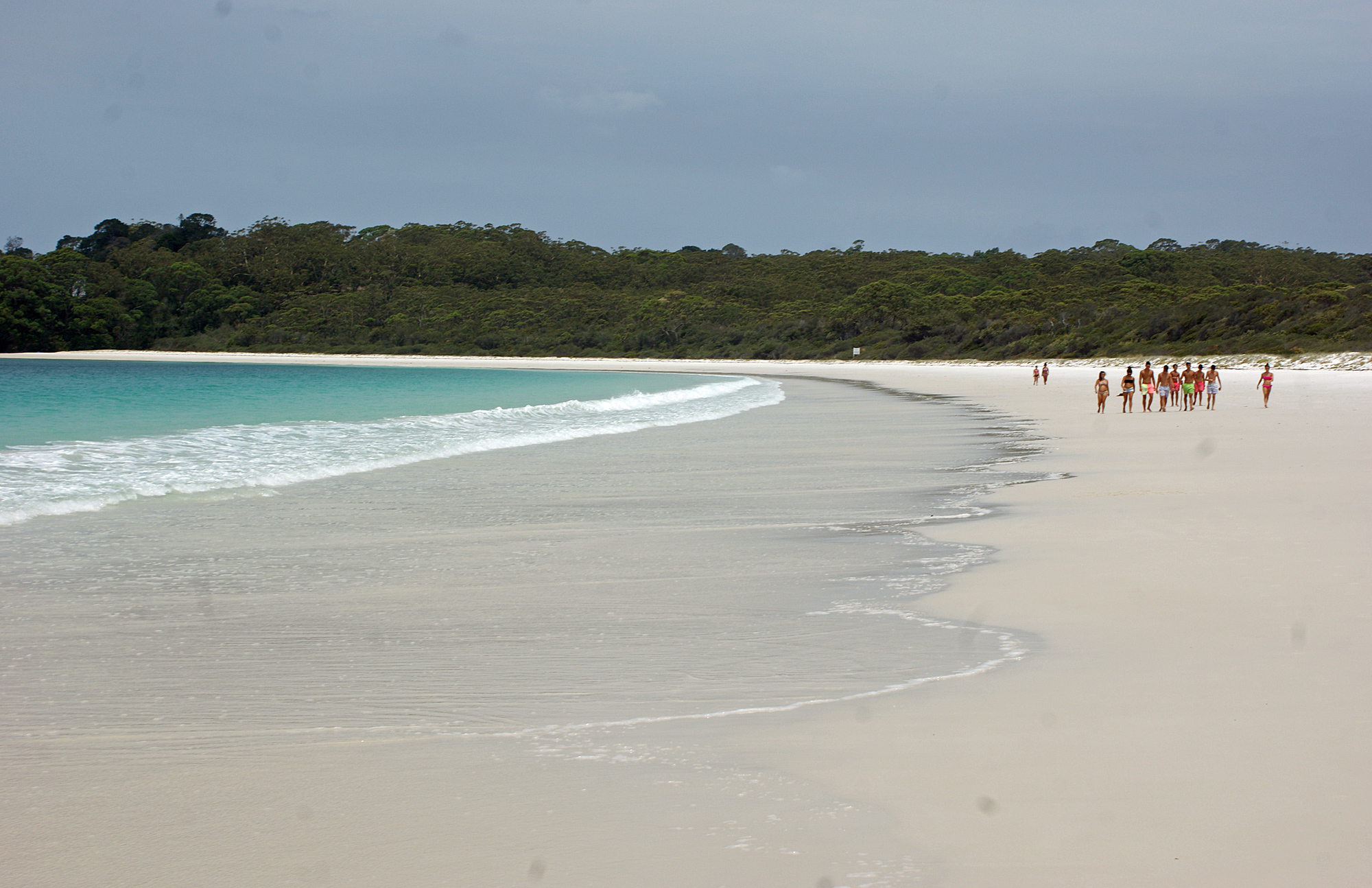 Hyams Beach, Jervis Bay, NSW, Australia – looking South